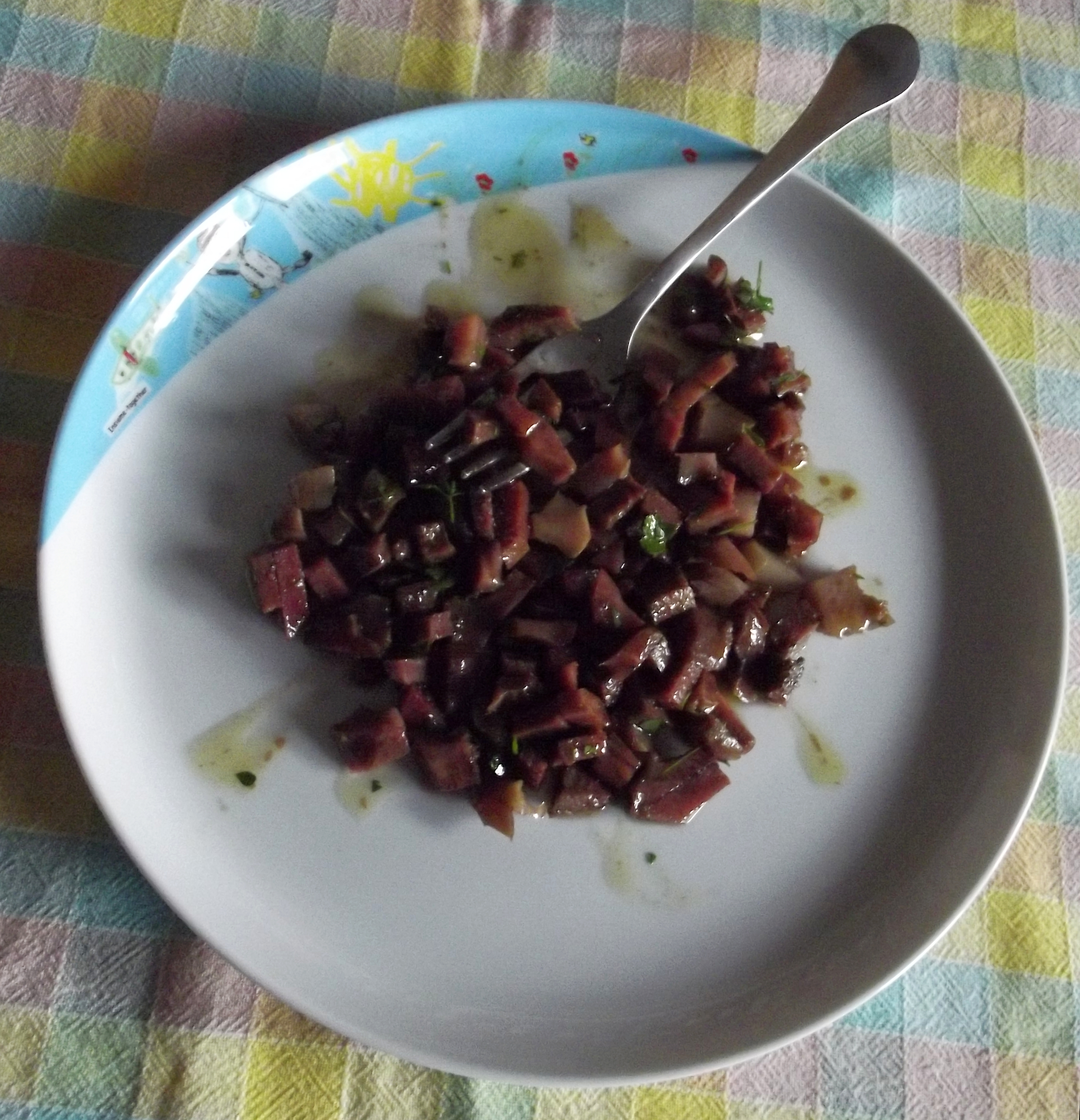 Beef head salad